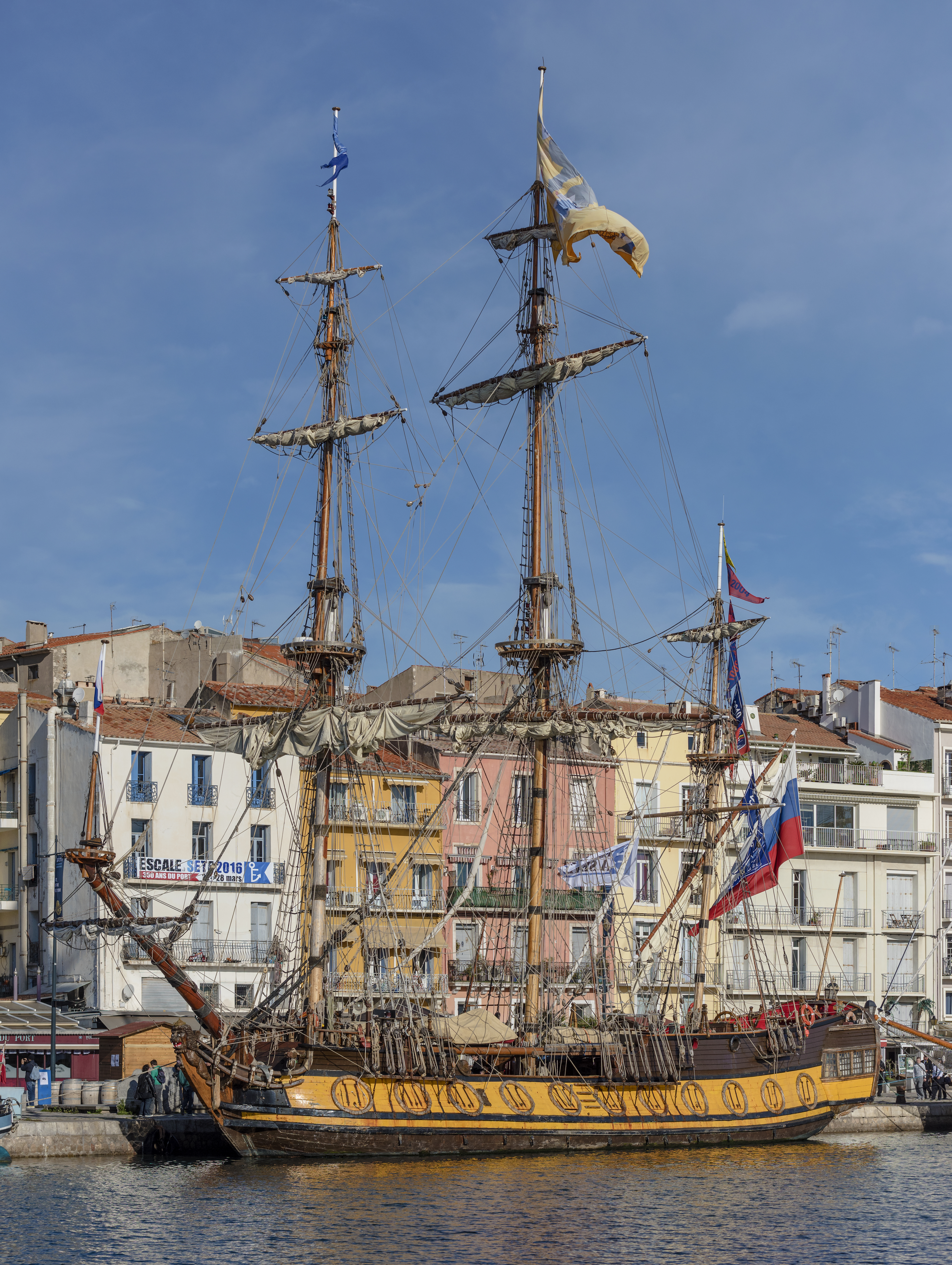 Shtandart (ship, 1999). During the event "Escale à Sète 2016". Sète, Hérault, France